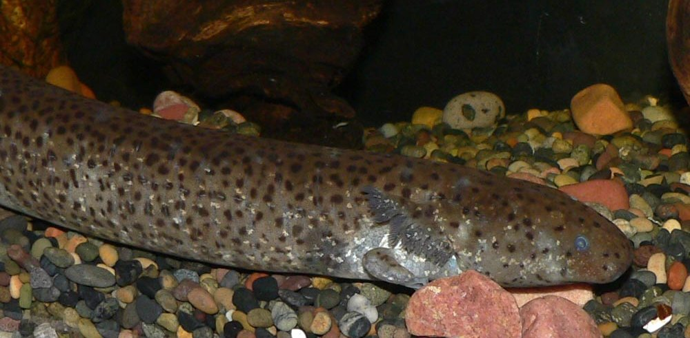 Crop of file in filename